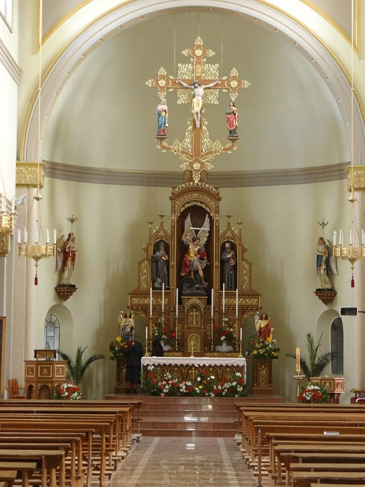 Alter of St. Archangel Michael church in Rakovski